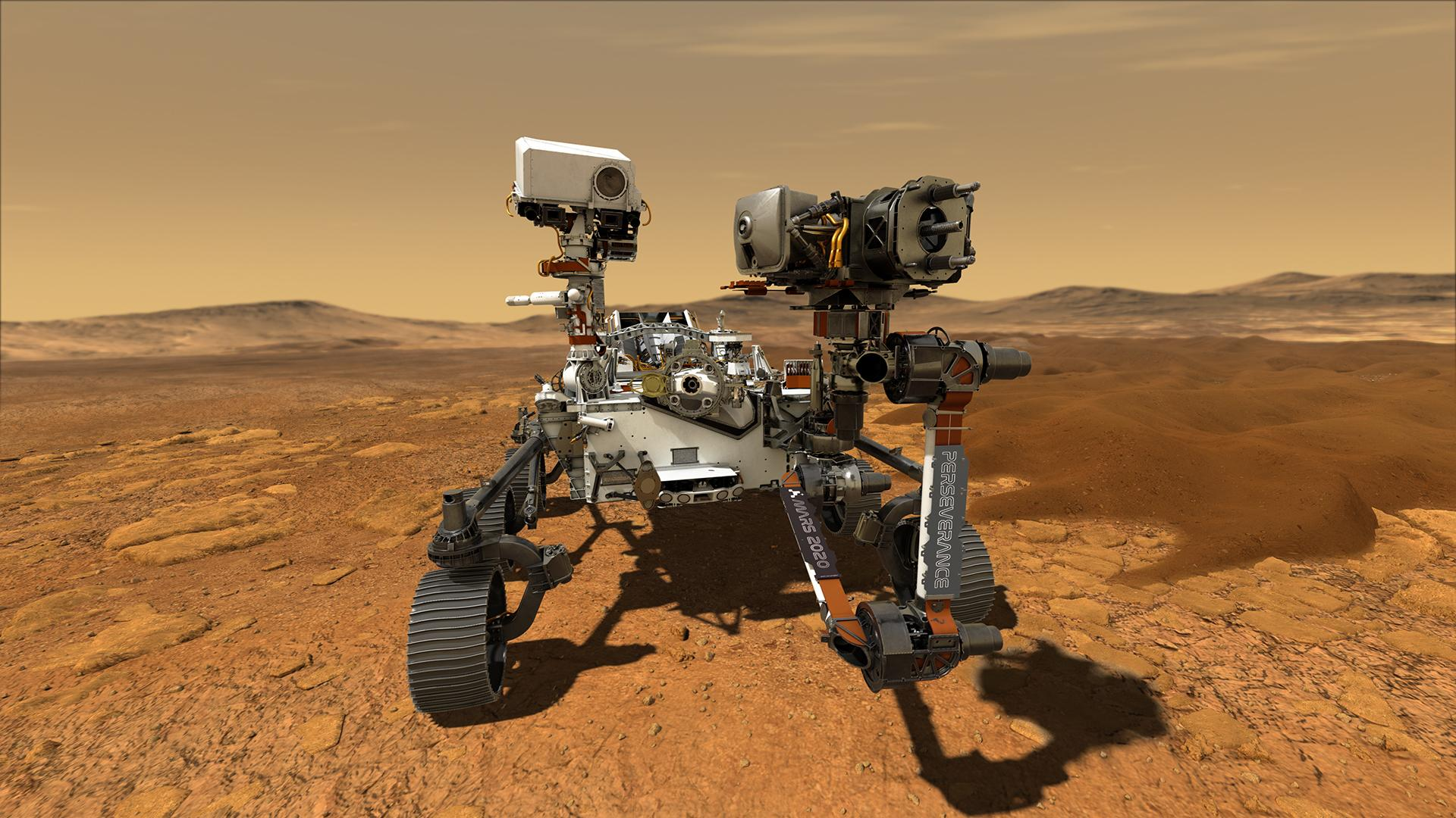 PIA23764: Perseverance on Mars This illustration depicts NASA's Perseverance rover operating on the surface of Mars. Perseverance will land at the Red Planet's Jezero Crater a little after 3:40 p.m. EST (12:40 p.m. PST) on Feb. 18, 2021. For more information about the mission, go to